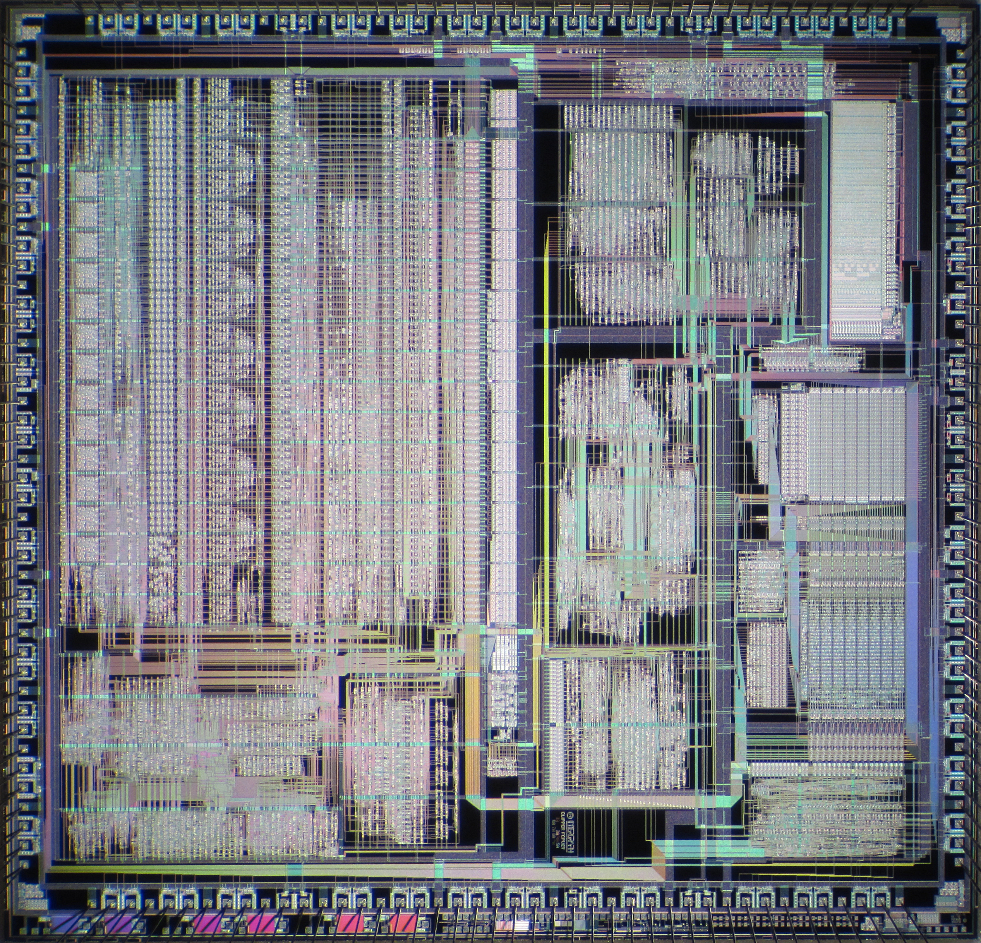 Die shot of Intergraph Clipper C300 microprocessor (CPU) marked CYIM01500.